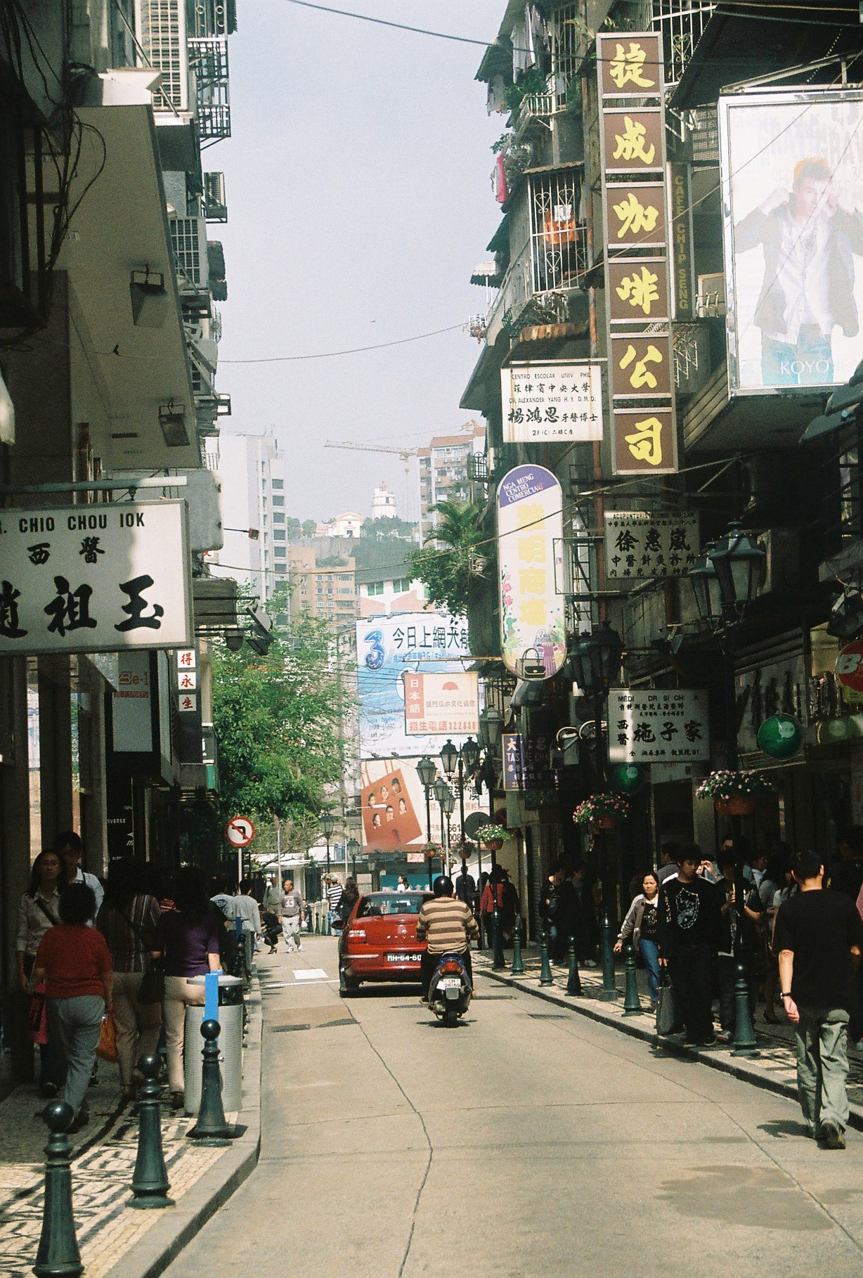 Guia Lighthouse from Macao Daily